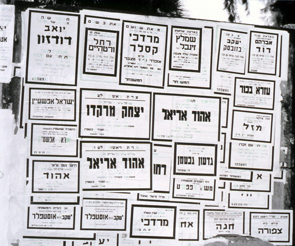 printed papers